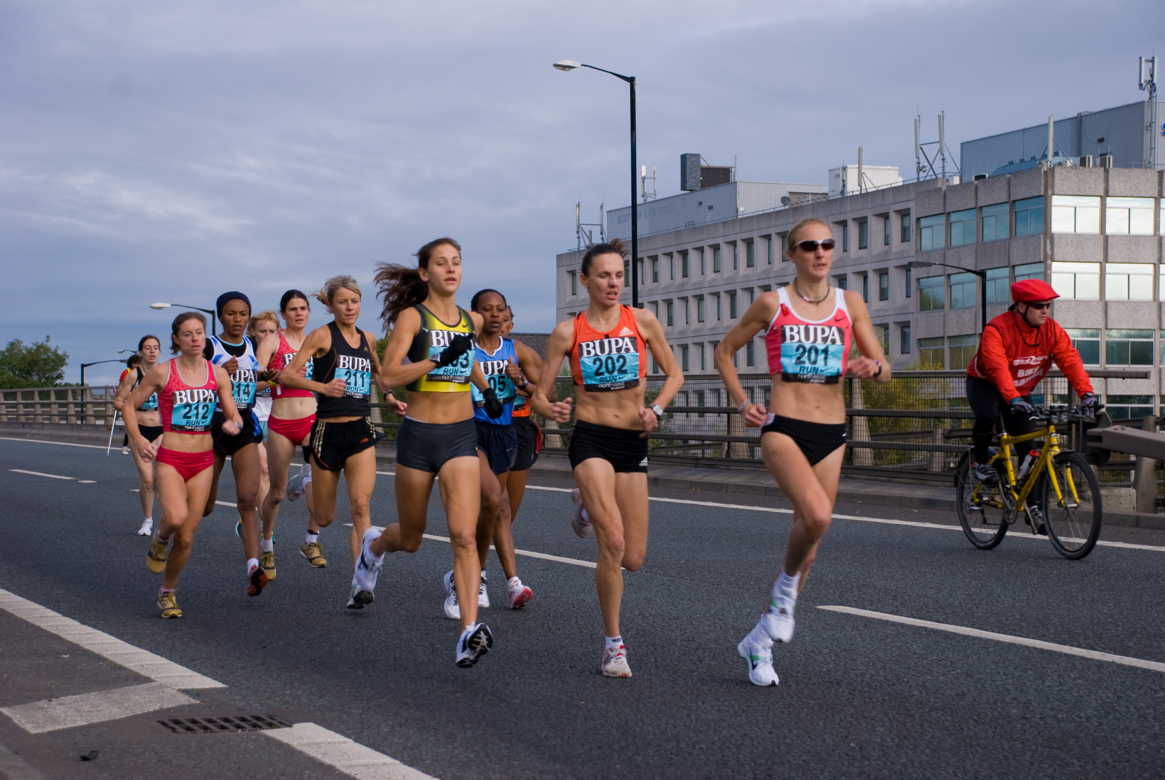 Great North Run 2007, head-group of the elite ladies (Paula Radcliffe, Kara Goucher, Anikó Kálovics, Hayley Yelling, Tracey Morris, Jane Mula and Birhane Dagne)